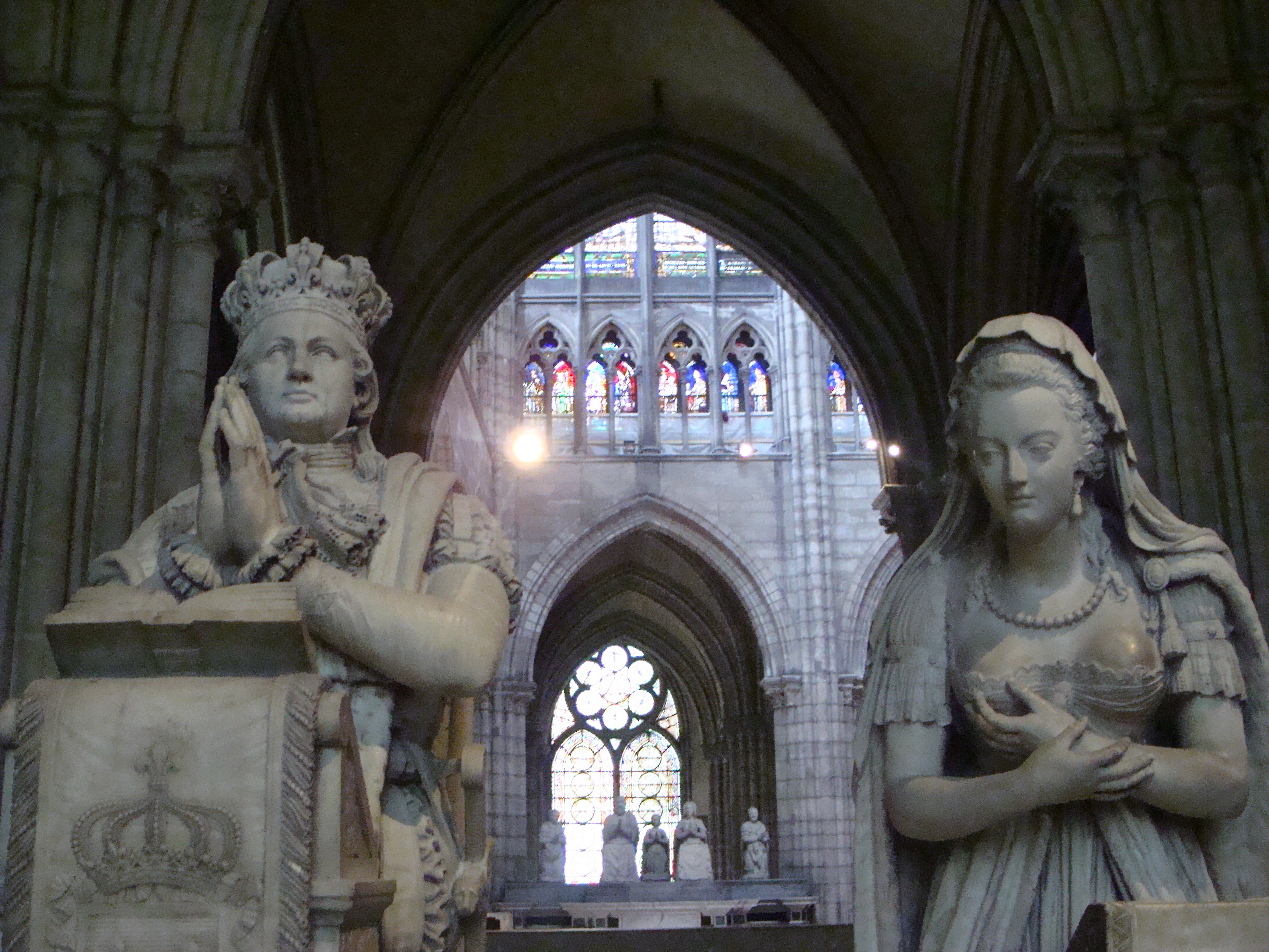 Asilique St. Denis, Memorial Louis XVI and Marie Antoinette